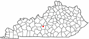 Adapted from Wikipedia's KY